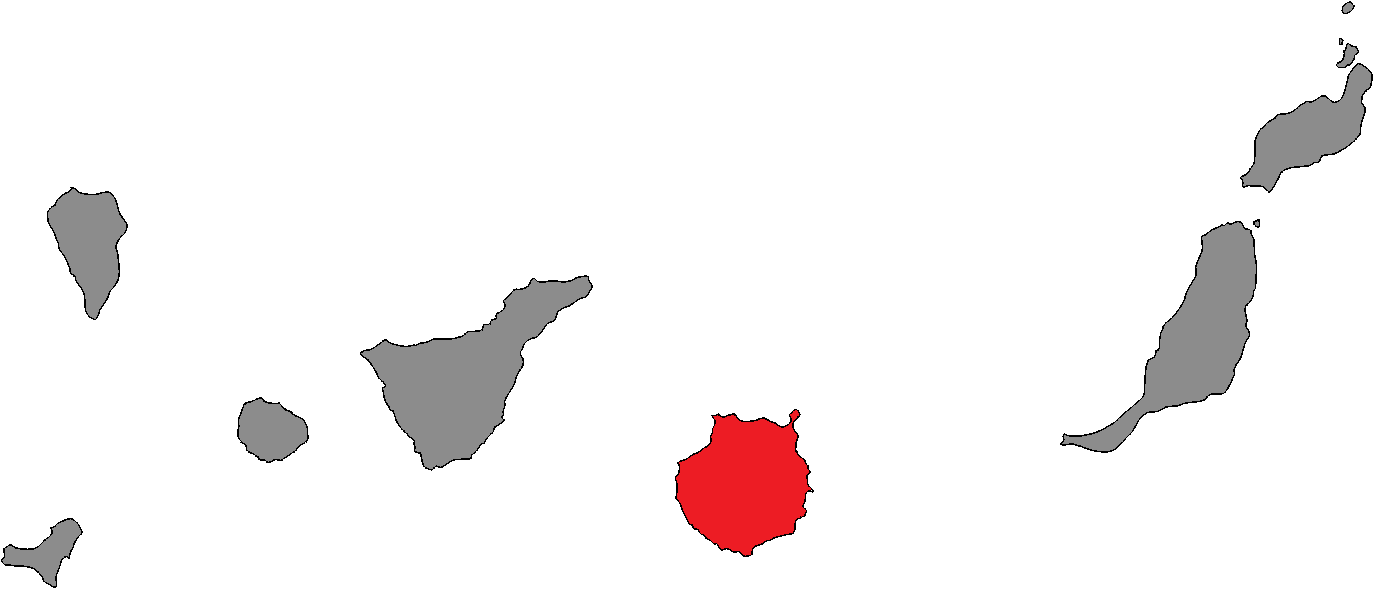 Canarian Parliament district of Gran Canaria.